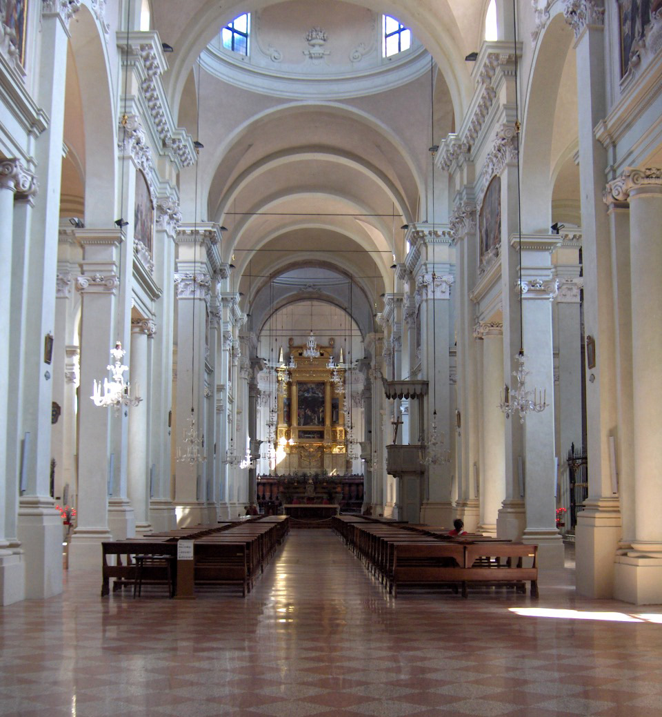 nave of the Basilica of Saint Dominic, Bologna, Italy